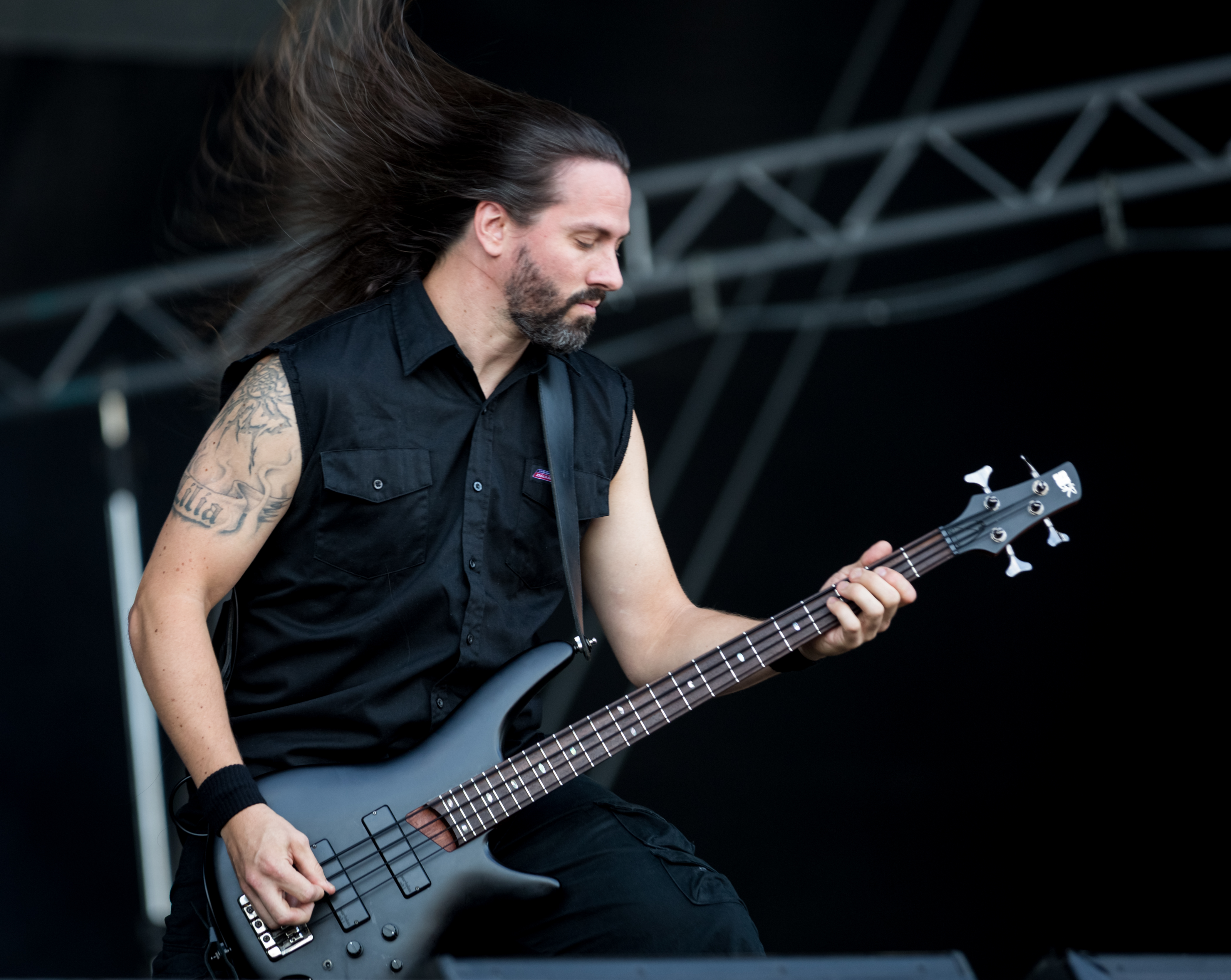 Kataklysm - Wacken Open Air 2015